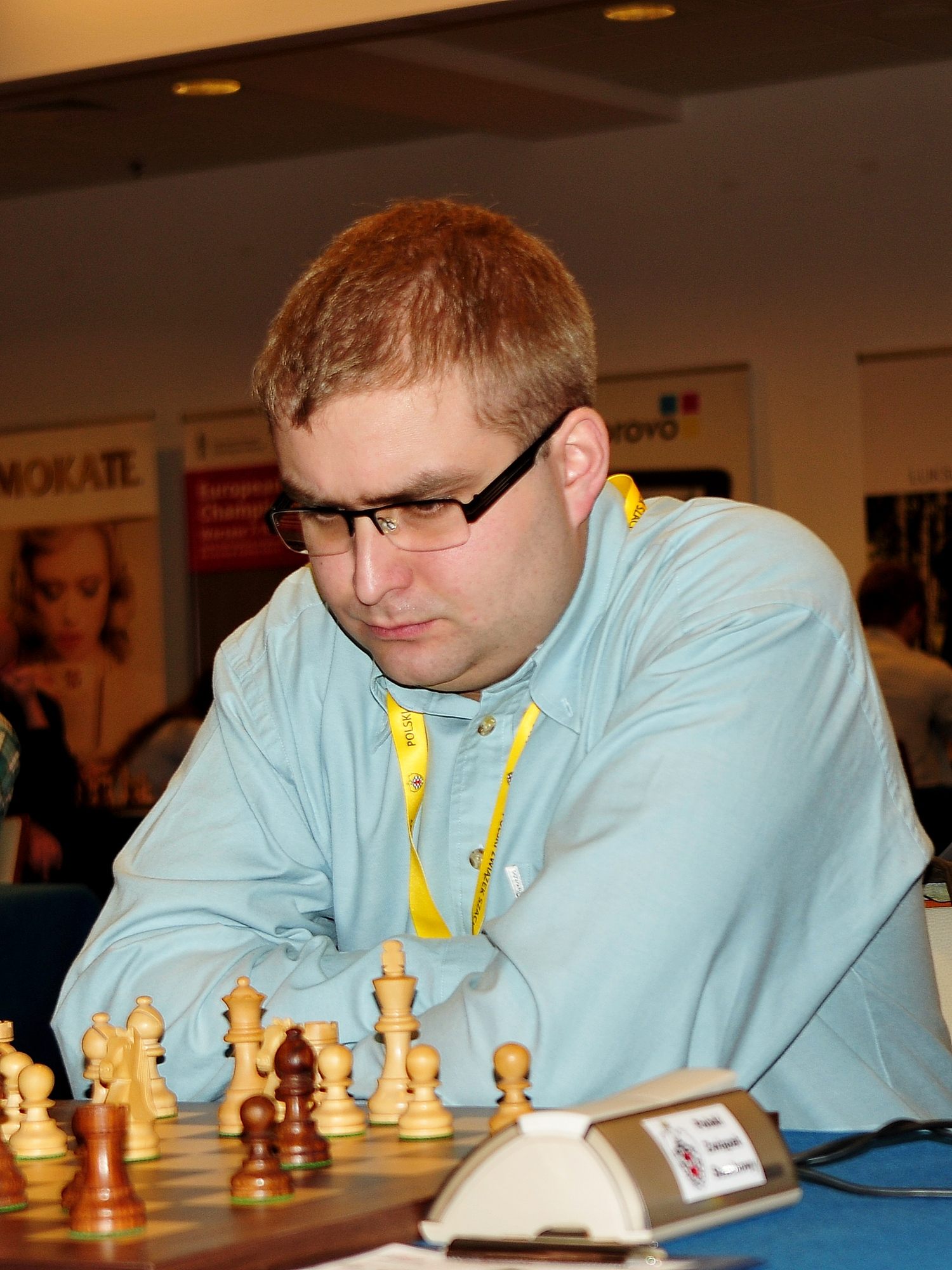 GM Marcin Tazbir, European Chess Team Championship Warsaw 2013